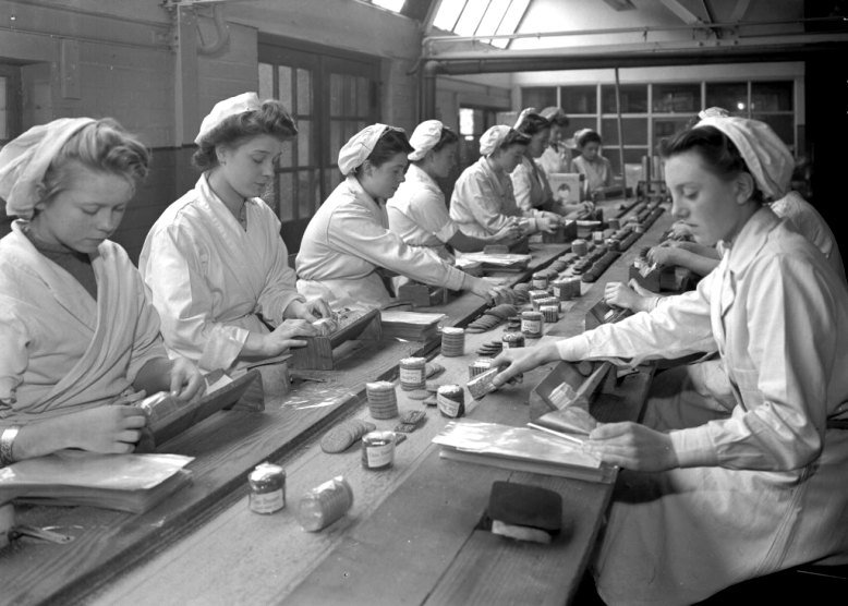 Production of Wright's Biscuit factory in South Shields, photographed by Turners. Wright’s Biscuits was a well known company in South Shields, South Tyneside. Set up as a maker of biscuits, they started out by supplying their stock to ships in 1790, but after a fall in demand, Wright's turned to making more up-market biscuits. Wright's Biscuit factory closed in 1973. Turner’s was established in Newcastle upon Tyne in the early 1900s. It was originally a chemists shop but in 1938 become a photographic dealer. Turners went on to become a prominent photographic and video production company in the North East of England. They had 3 shops in Newcastle city centre, in Pink Lane, Blackett Street and Eldon Square. Turner’s photographic business closed in the 1990s. Ref: TWAS:DT.TUR/2/891/g (Copyright) We're happy for you to share this digital image within the spirit of The Commons. Please cite 'Tyne & Wear Archives & Museums' when reusing. Certain restrictions on high quality reproductions and commercial use of the original physical version apply though; if you're unsure please . To purchase a hi-res copy please quoting the title and reference number.